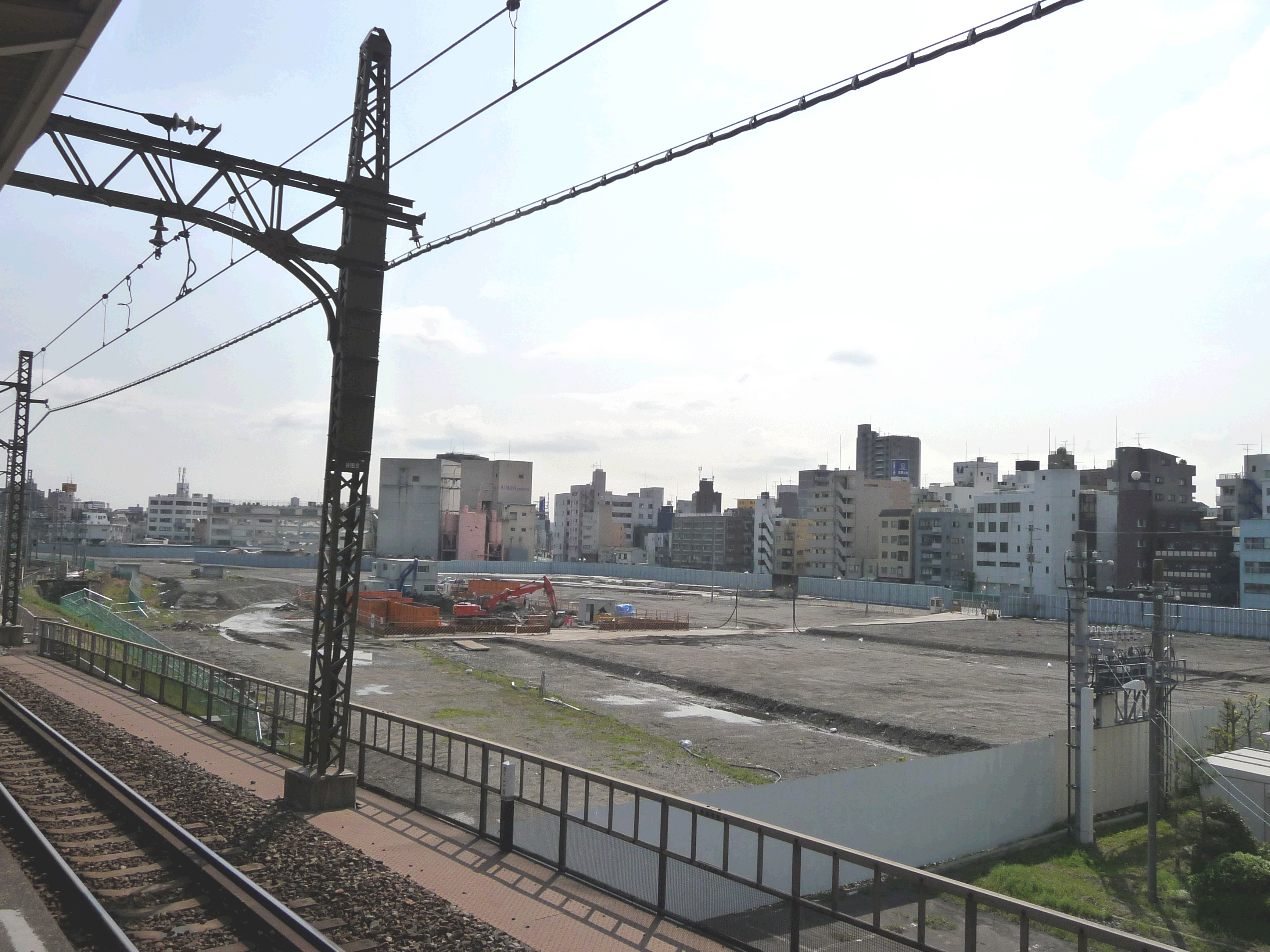 The ground site of Tokyo Sky Tree, before build.Photo taken from platfoem of Narihirabashi Station, Isezaki line Tobu railway.